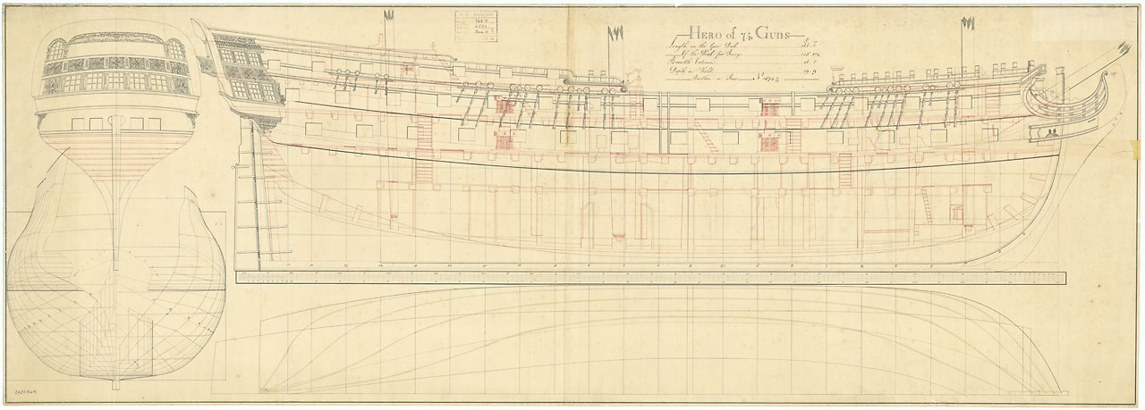 Hero (1759) Scale: 1:48. Plan showing the body plan, stern board outline with some decoration, sheer lines with inboard detail and quarter gallery decorations, and longitudinal half-breadth for 'Hero' (1759), a 74-gun Third Rate, two-decker, possibly as built and launched at Plymouth Dockyard. HERO 1759